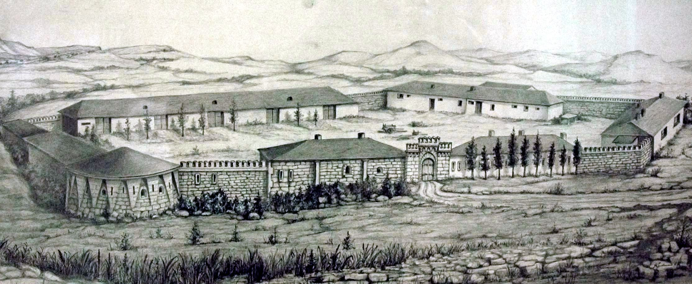 Kislovodsk fortress in the second half of XIX century